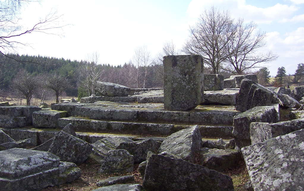 Ruins of a gallo-roman temple on the site of the Cars in the commune of Saint-Merd-les-Oussines